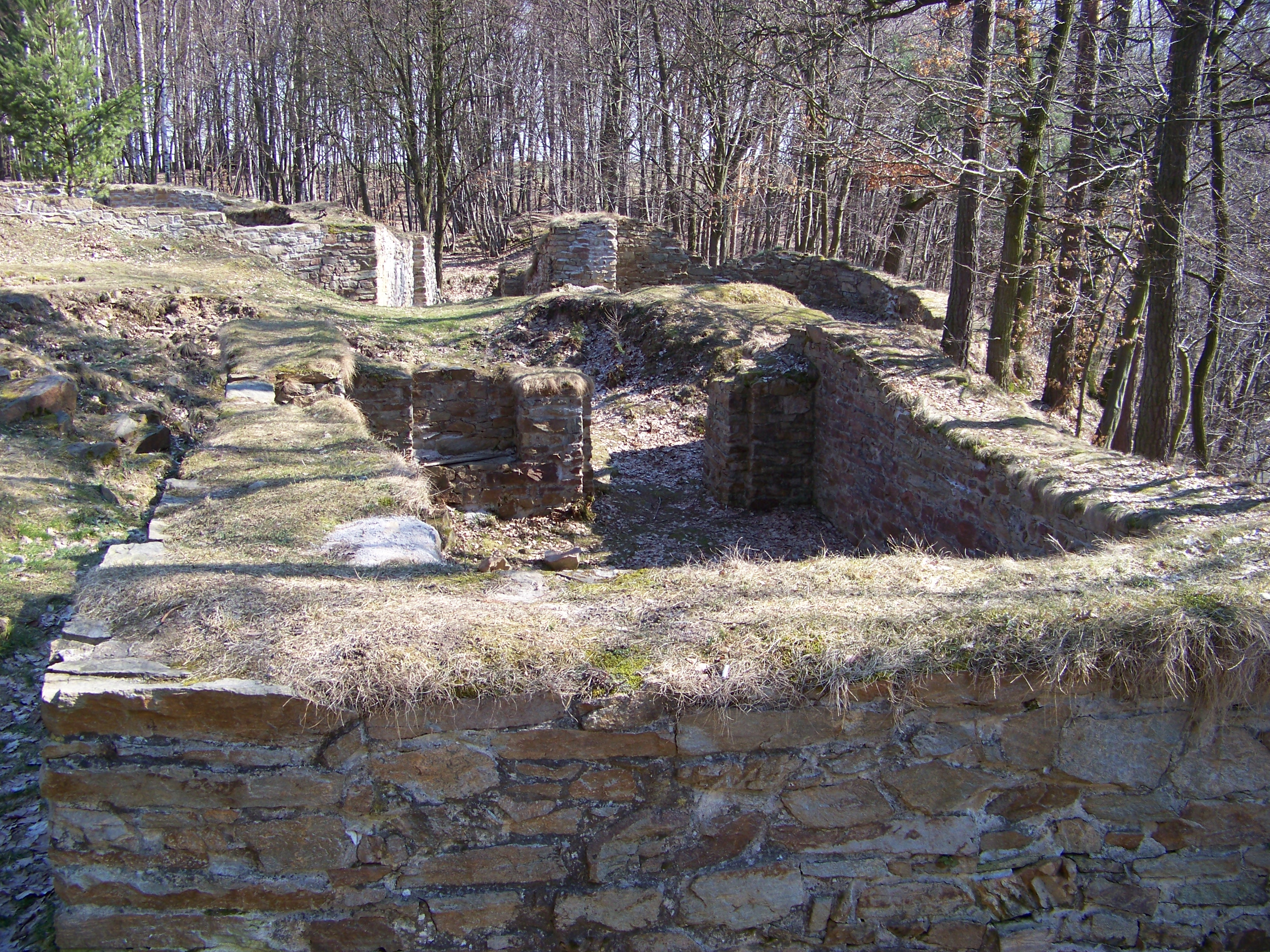 Chlístovice, Kutná Hora District, Central Bohemian Region, the Czech Republic. Sion Castle.